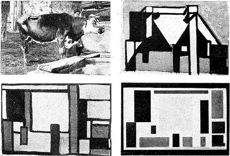 Ästhetische Transfiguration eines Gegenstandes. From: Theo van Doesburg (1925) Grundbegriffe der neuen gestaltenden Kunst, München: Albert Lange Verlag, [p. 45].